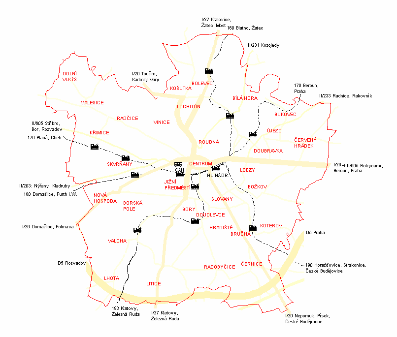 Transport net in Plzeň.